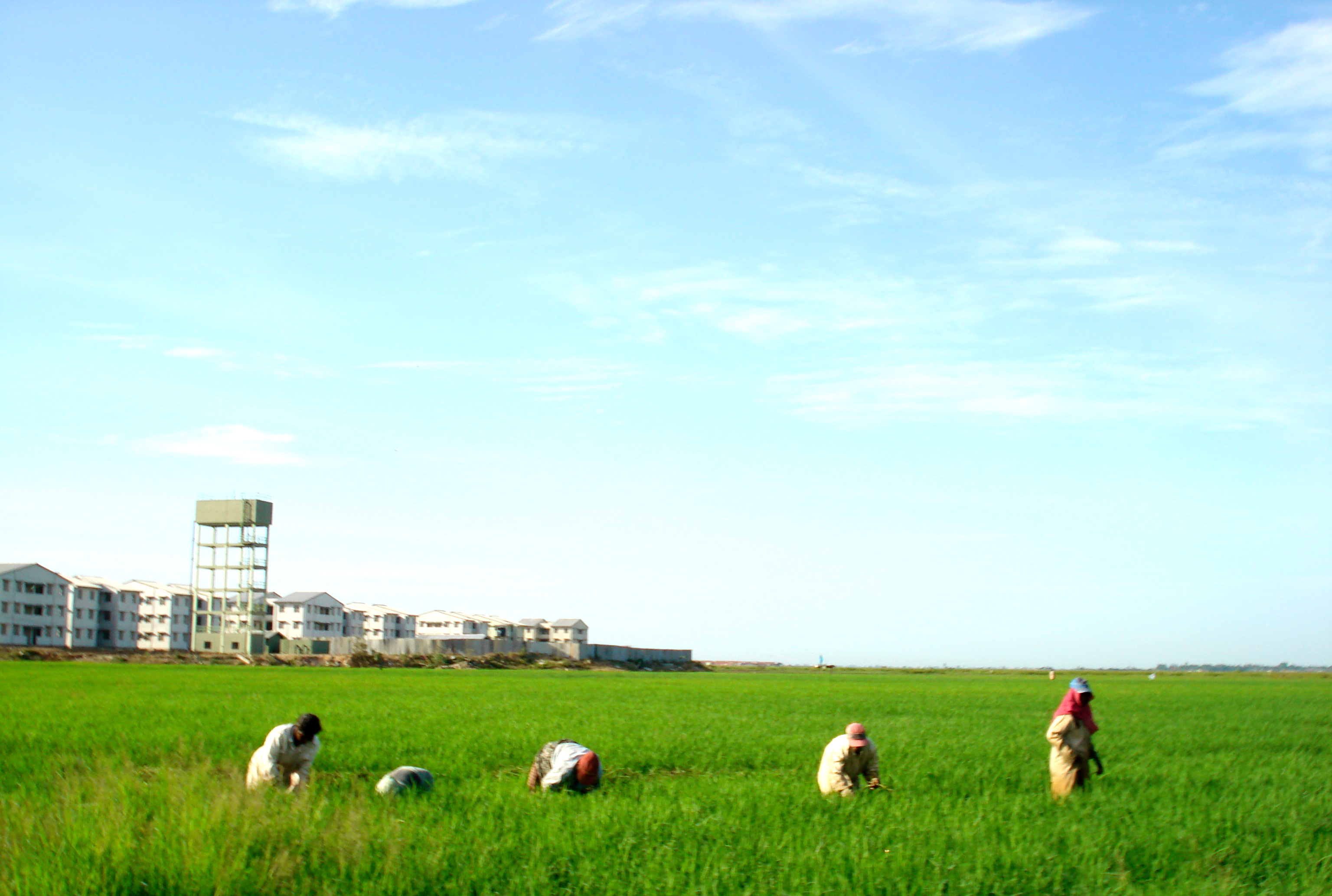 The west and the green side of Kalmunai